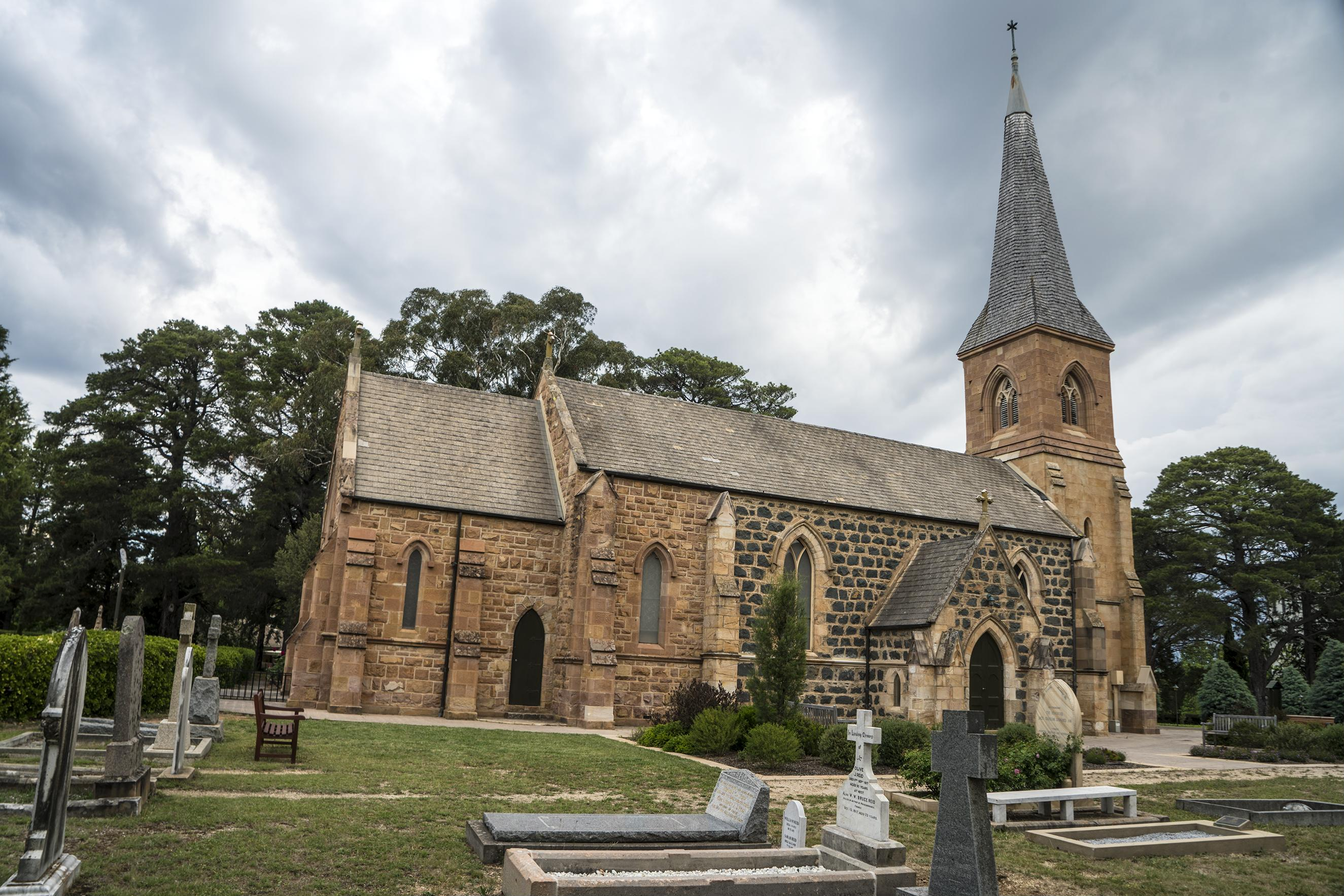 Church of St John Canberra